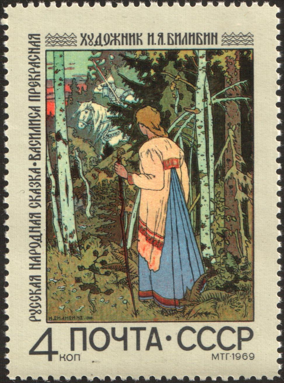 USSR stampː Vasilisa the Beautiful (Folk Tale). Seriesː Russian Fairy Tales